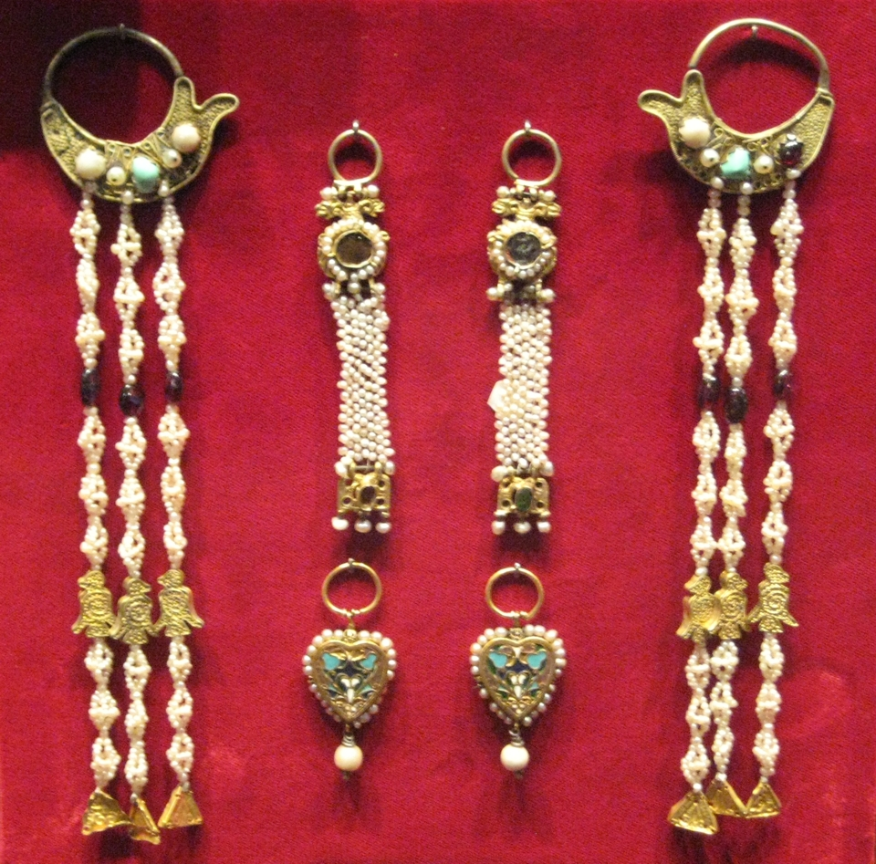 Ryasnas (рясны) - "earrings" for riza// Патриаршее подворье.